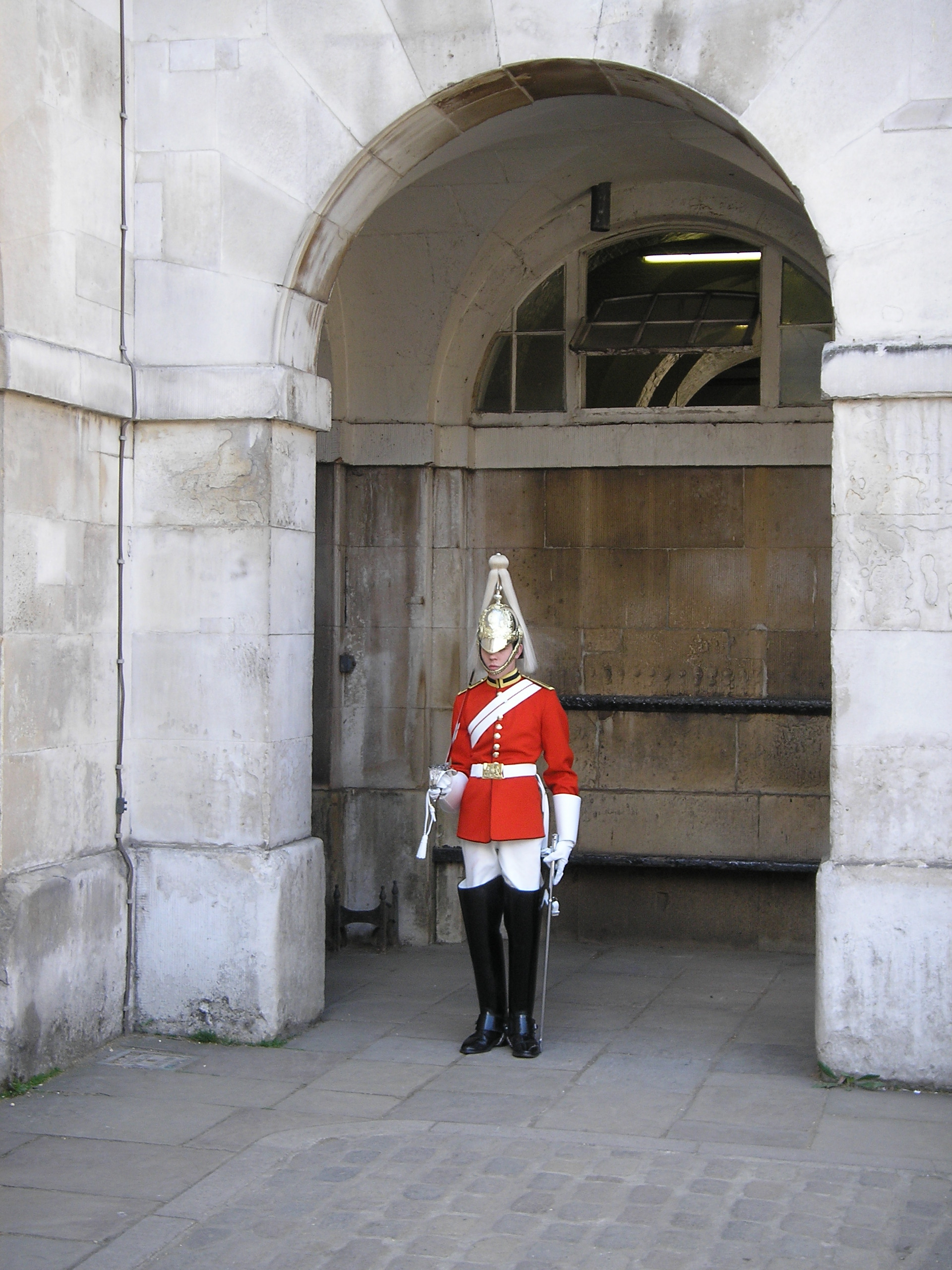 Guard of the Life Guards at Horse Guards Parade building in London